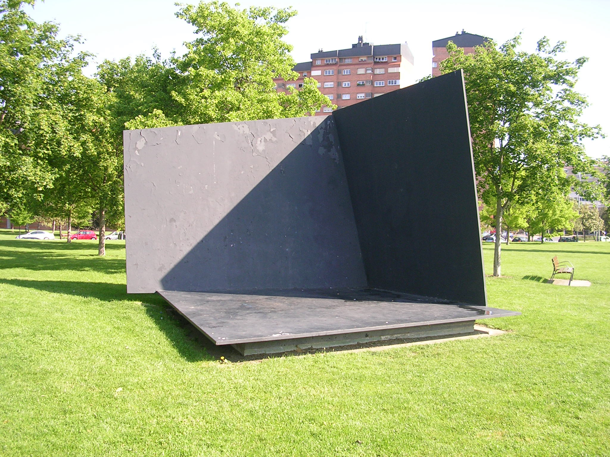 “An homage to Velázquez”, steel sculpture by Jorge Oteiza in Pamplona Yamaguchi Park. Designed in 1959.